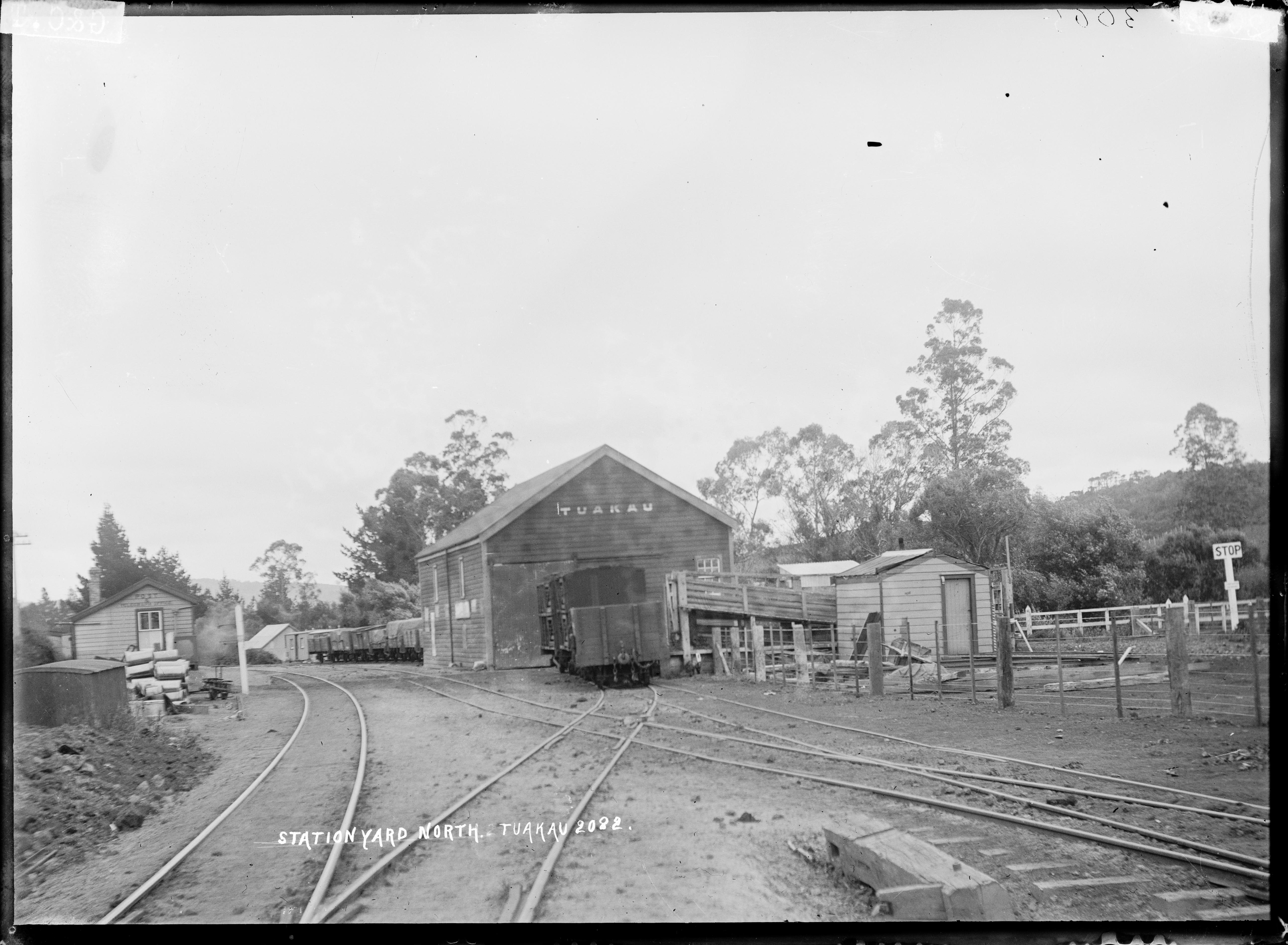 Railway yard at Tuakau, photographed possibly between 1910 and 1925 by William A Price. Shows railway shed, rolling stock, and livestock loading ramp. In distance on left is the Post & Telegraph Office. Inscriptions: Inscribed - Photographer's title on negative -bottom left: Station yard north Tuakau 2082. Quantity: 1 b&w original negative(s). Physical Description: Dry plate glass negative 4.75 x 6.5 inches Railway yard at Tuakau. Price, William Archer, 1866-1948 :Collection of post card negatives. Ref: 1/2-001525-G. Alexander Turnbull Library, Wellington, New Zealand.